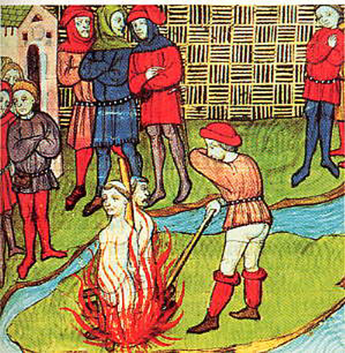 Tempelherreorden. Different version of Image:Templars Burning.jpg